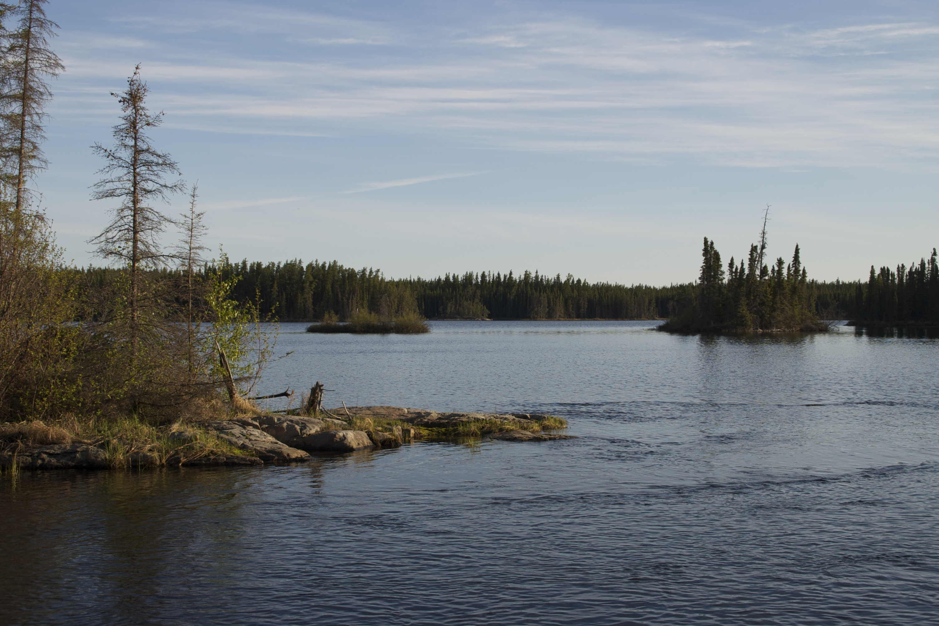 Part of the Mistik Creek chain